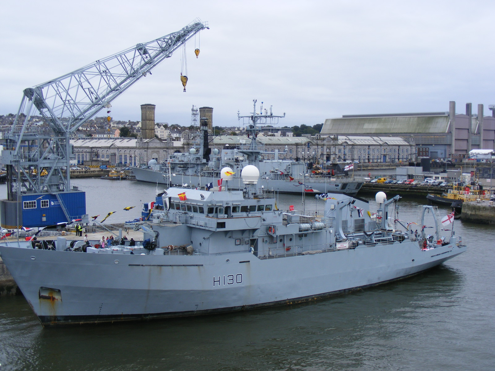 HMS Roebuck at Plymouth, in 2009.